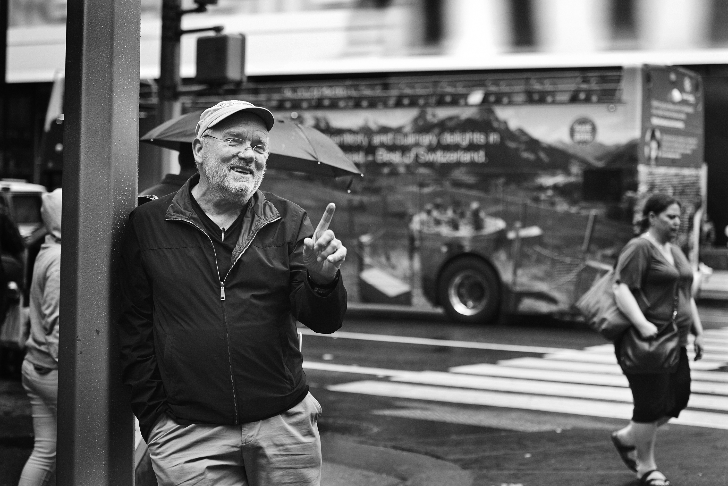 Portrait of German Photographer Peter Lindbergh, taken by Stefan Rappo (New York, 2016)